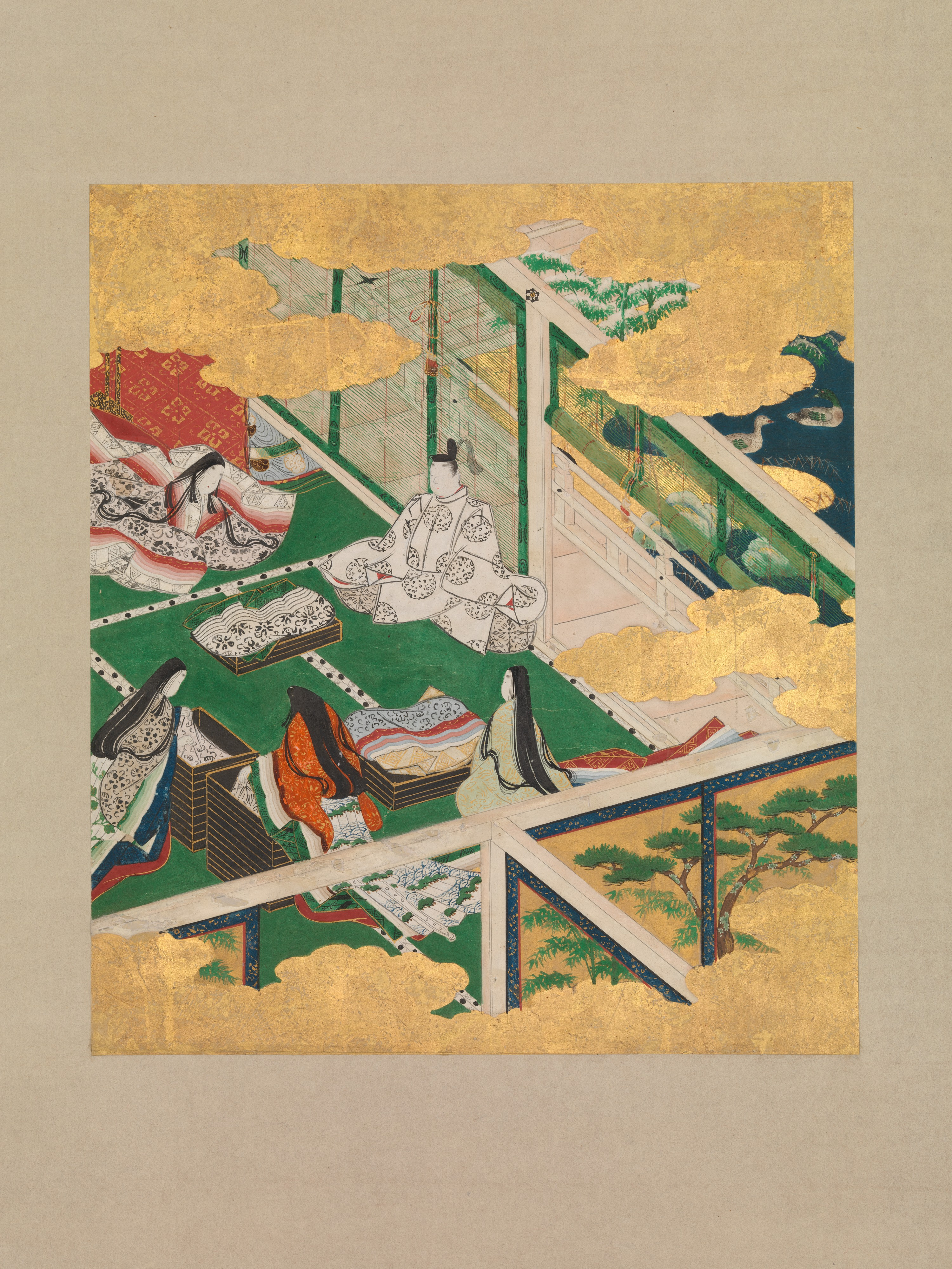 Japan; Album leaves mounted as a pair of hanging scrolls; Paintings